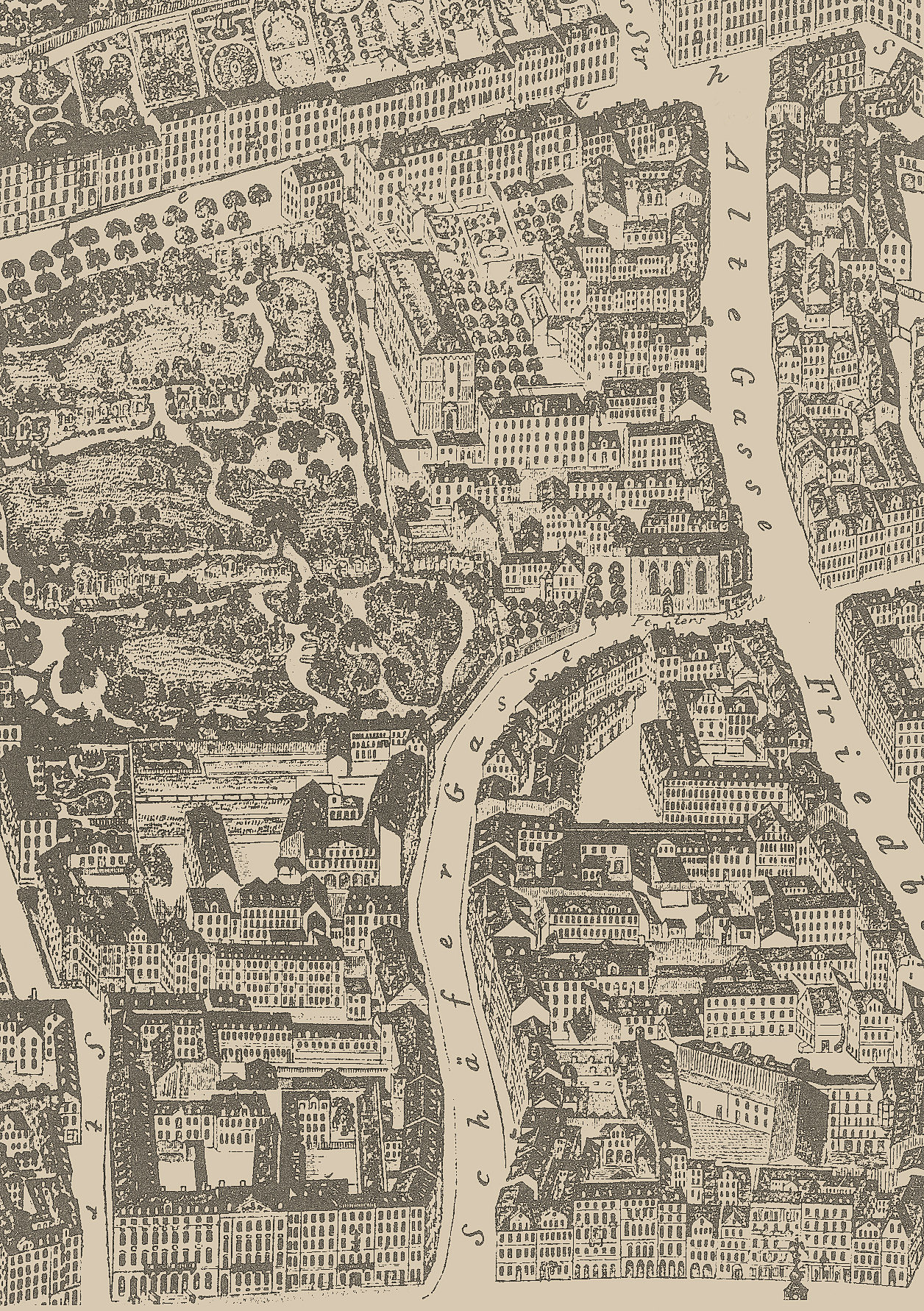 Details of the map of the city of Frankfurt am Main, Germany: Grosse Friedberger Strasse